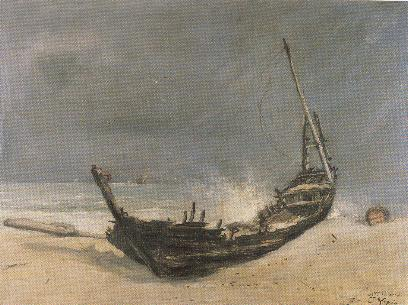 Ludovic-Napoléon Lepic's "The Smashed Boat" (1877)